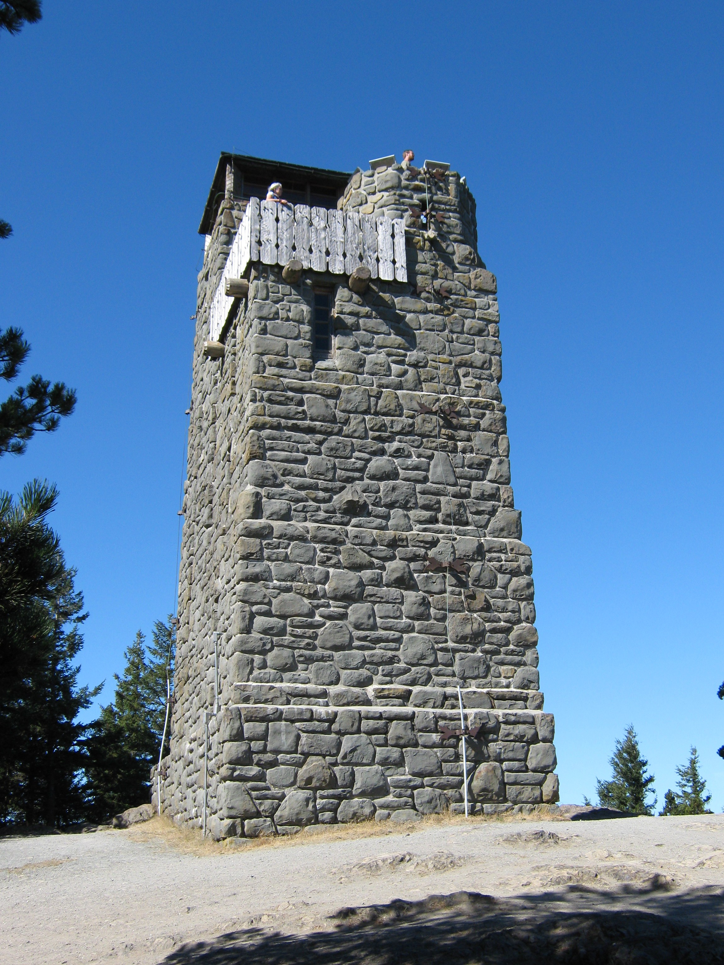 A photograph of the southern face of the stone tower at the top of Mt. Constitution on Orcas Island. Intended to be used to improve the article on Mount Constitution.